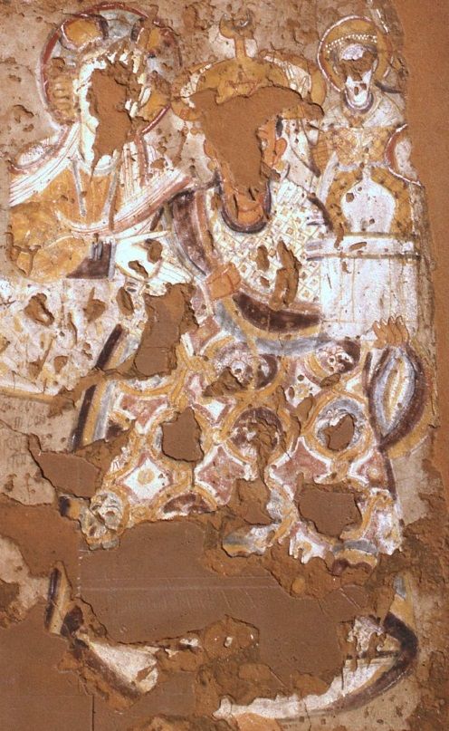 An Eparch of Nobatia on a wall painting from Abdel Qadir.